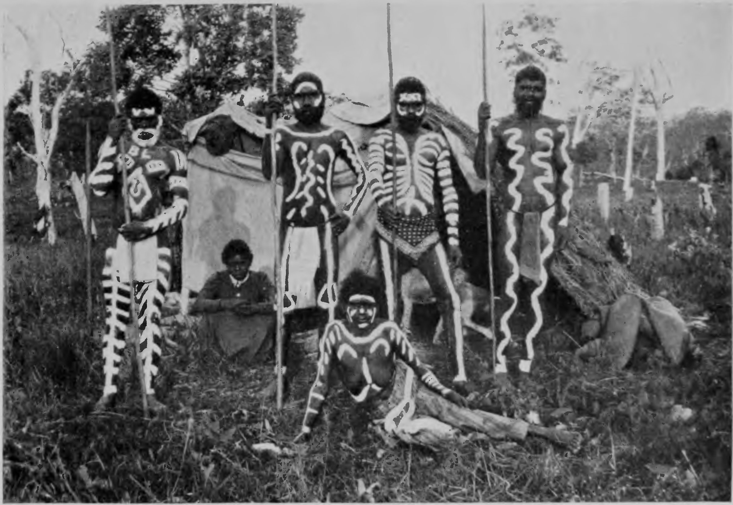 Natives of Yabber, Kabi Tribe, Mary River, Queensland